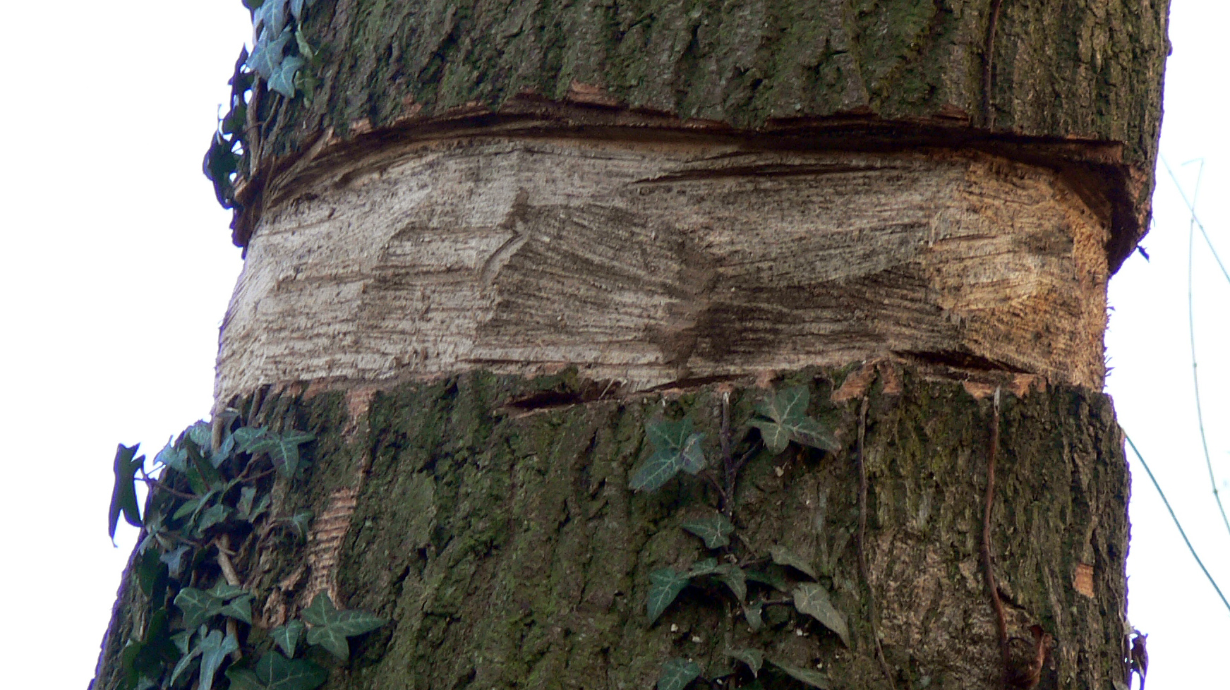 Girdling, also called ring barking or ring-barking, is the process of completely removing a strip of bark (consisting of Secondary Phloem tissue, cork cambium, and cork) around a tree's outer circumference, causing its death. Here girdling occurs by deliberate human action to give new habitats to species of dead woods (Lille, North of France, Parc de la Cidatelle (Bois de Boulogne)